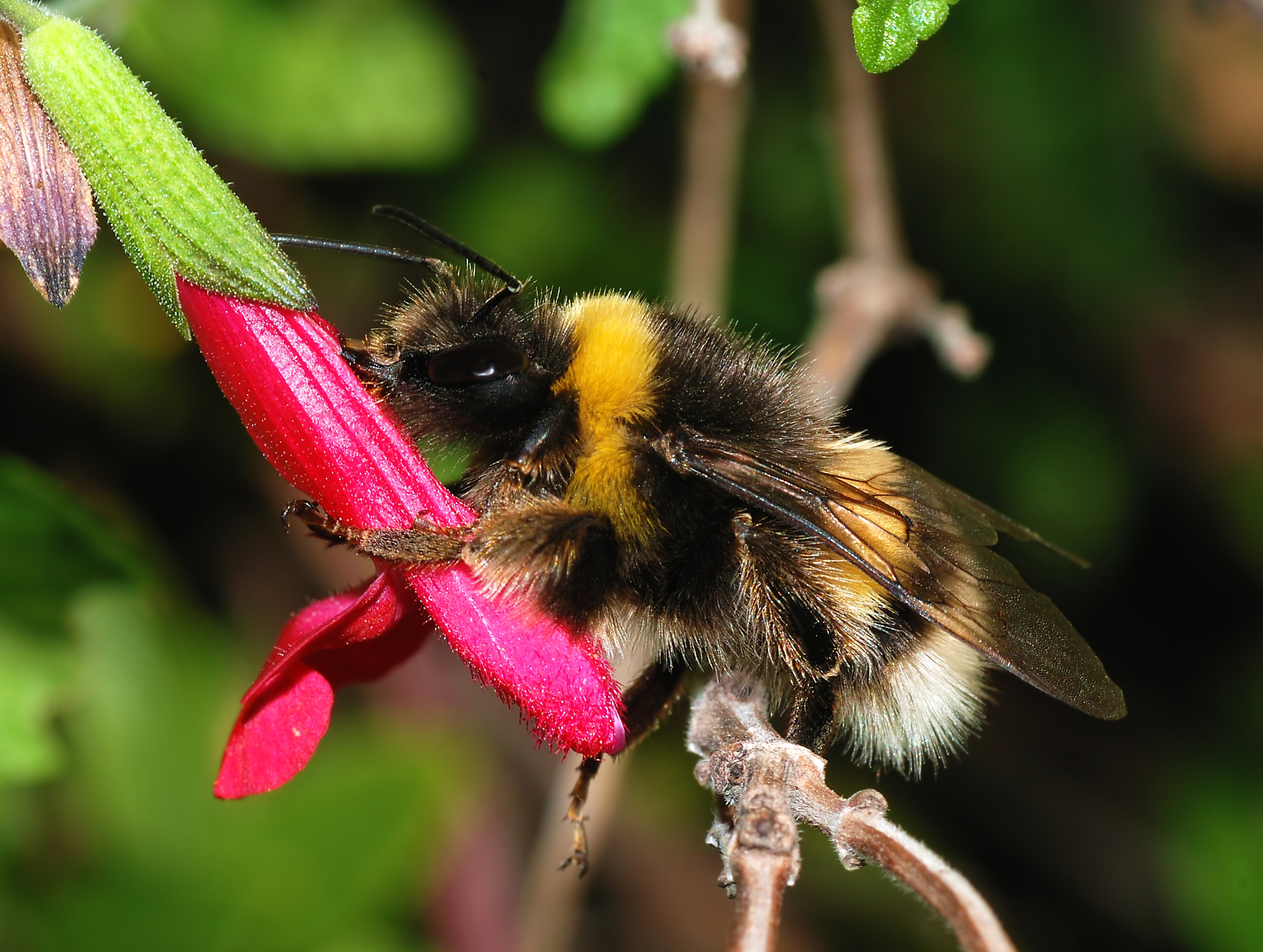 Male buff-tailed bumblebee (Bombus terrestris) Camera: Nikon D80, Tokina 100mm macro Exposure: manual exposure. F/20, 1/125, ISO 100